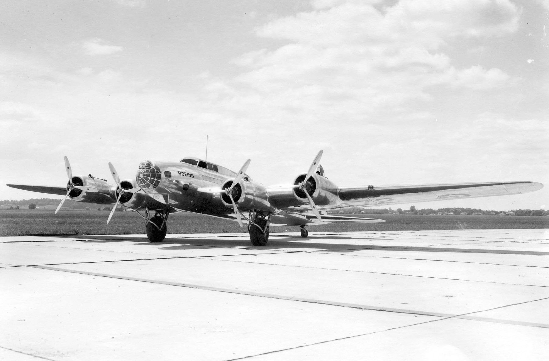 Boeing XB-17 (Model 299). (U.S. Air Force photo)